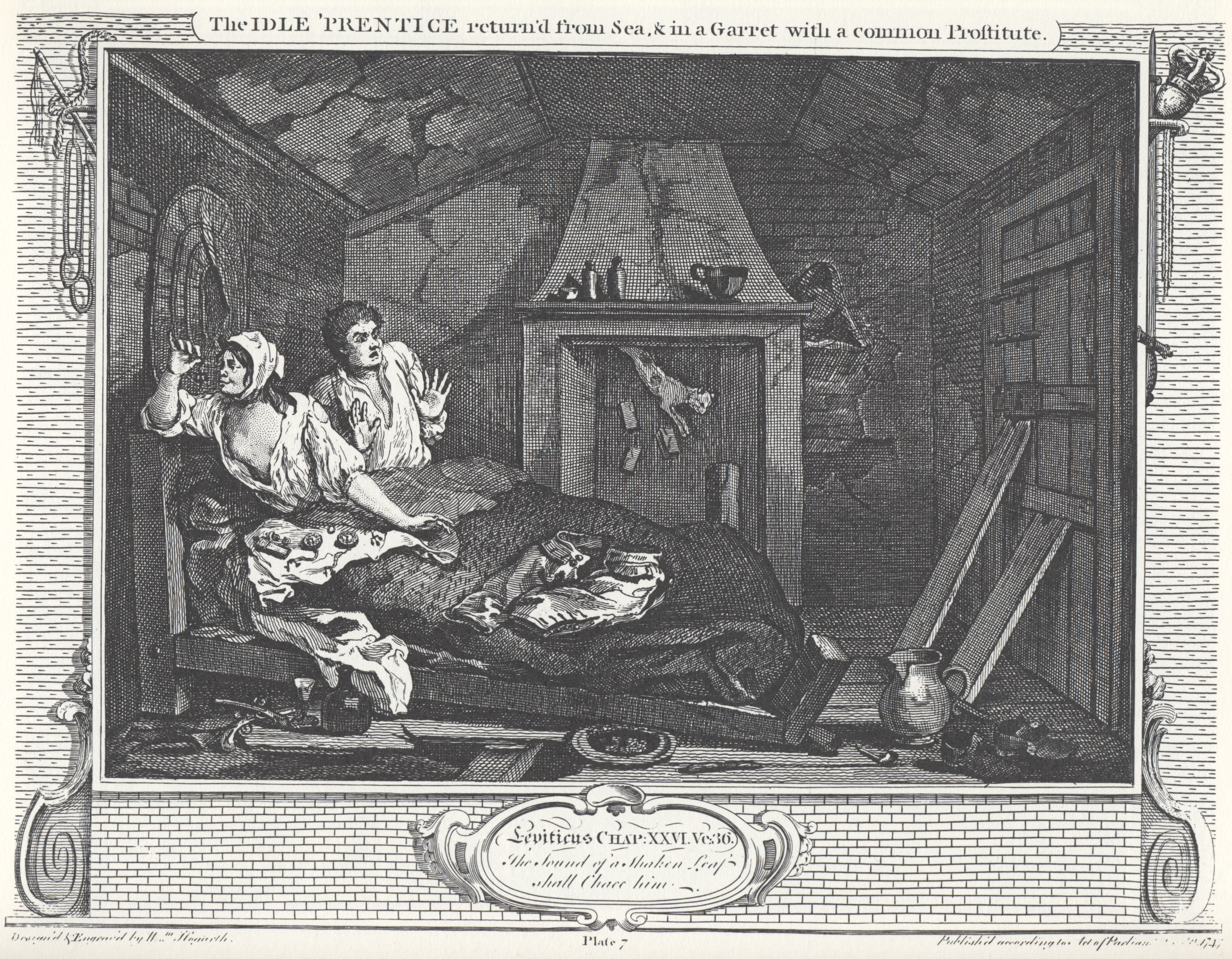 William Hogarth - Industry and Idleness, Plate 7; The Idle 'Prentice return'd from Sea, & in a Garret with common Prostitute